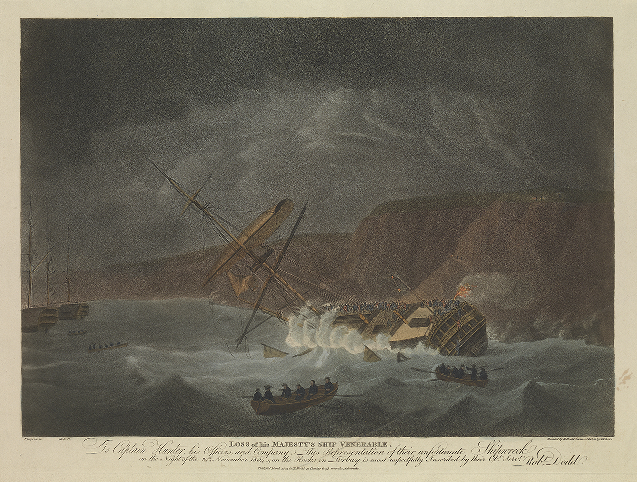 Loss of His Majesty's Ship Venerable... Shipwreck on the Night of the 24th November 1804 on the Rocks in Torbay Hand-coloured. PY0741 Loss of His Majesty's Ship Venerable